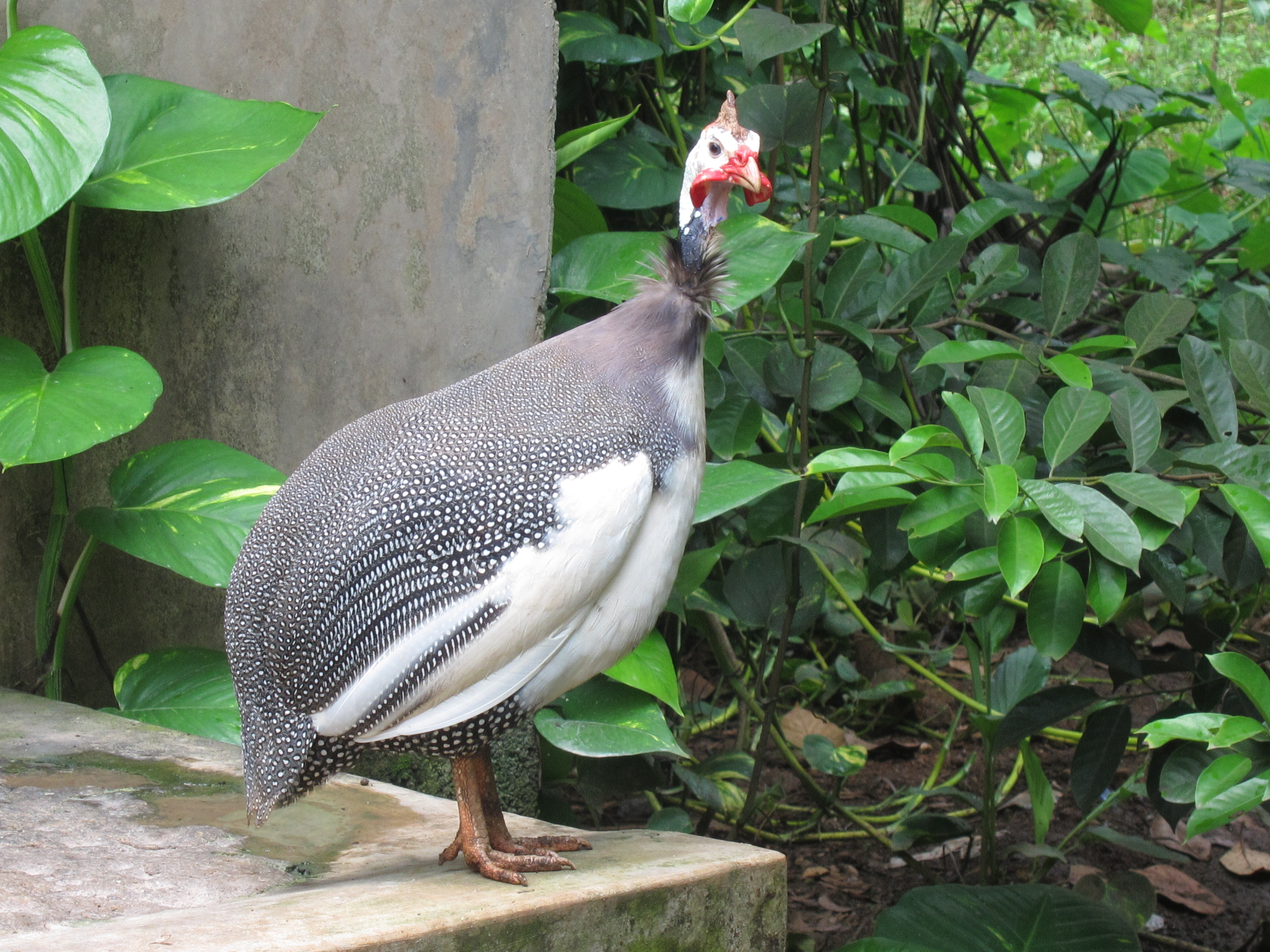 Domesticated Guineafowl